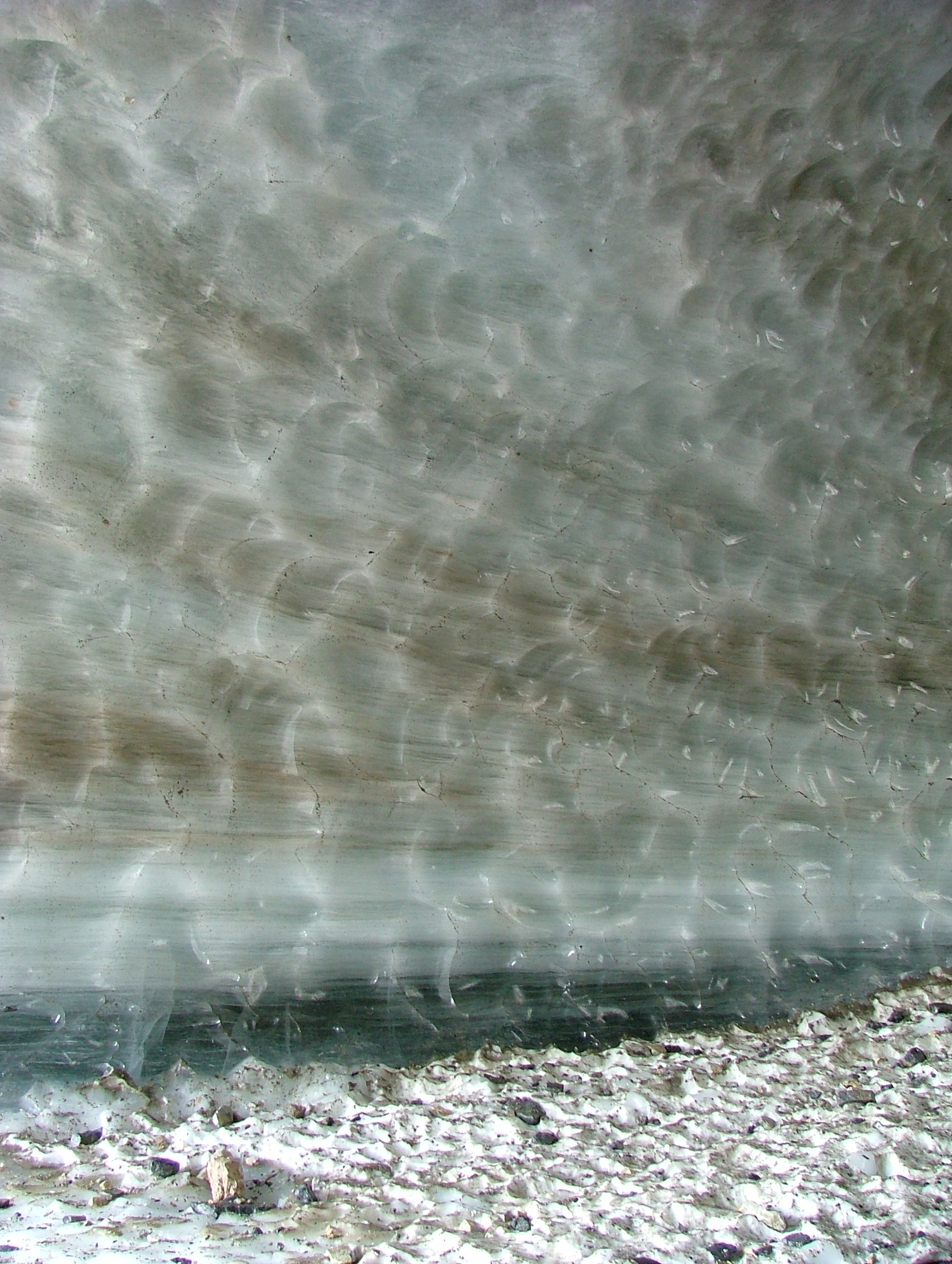 A cross-section through the Stanley Glacier, Yoho National Park, British Columbia, Canada; taken from within a cave. The dark layer at the base is around 20cm in thickness. Response to user questions from 130.20.3.152 The floor of the ice cave appears to be ice/snow with some rock debris interspersed - is this correct? Only towards the edges; the middle of the cave was bedrock, washed smooth. There appear to be distinctive bands of fine debris starting at 40 cm up and continuing periodically even to the top of the photo. Is that impression consistent with your first hand observation? Yes, the darker bands were sandy, I think; there were larger clasts caught up in the ice too The dark 20-cm band of ice at the bottom appears on close inspection to be fairly transparent. When you look at it closely it appears the rock surface under the ice layer is relatively rough (as opposed to scoured smooth). Is that impression consistent with your first hand observation? I don't think that one can see the rock surface itself. The bottom will be clearer due to the pressure producing partial melting at the base; see .